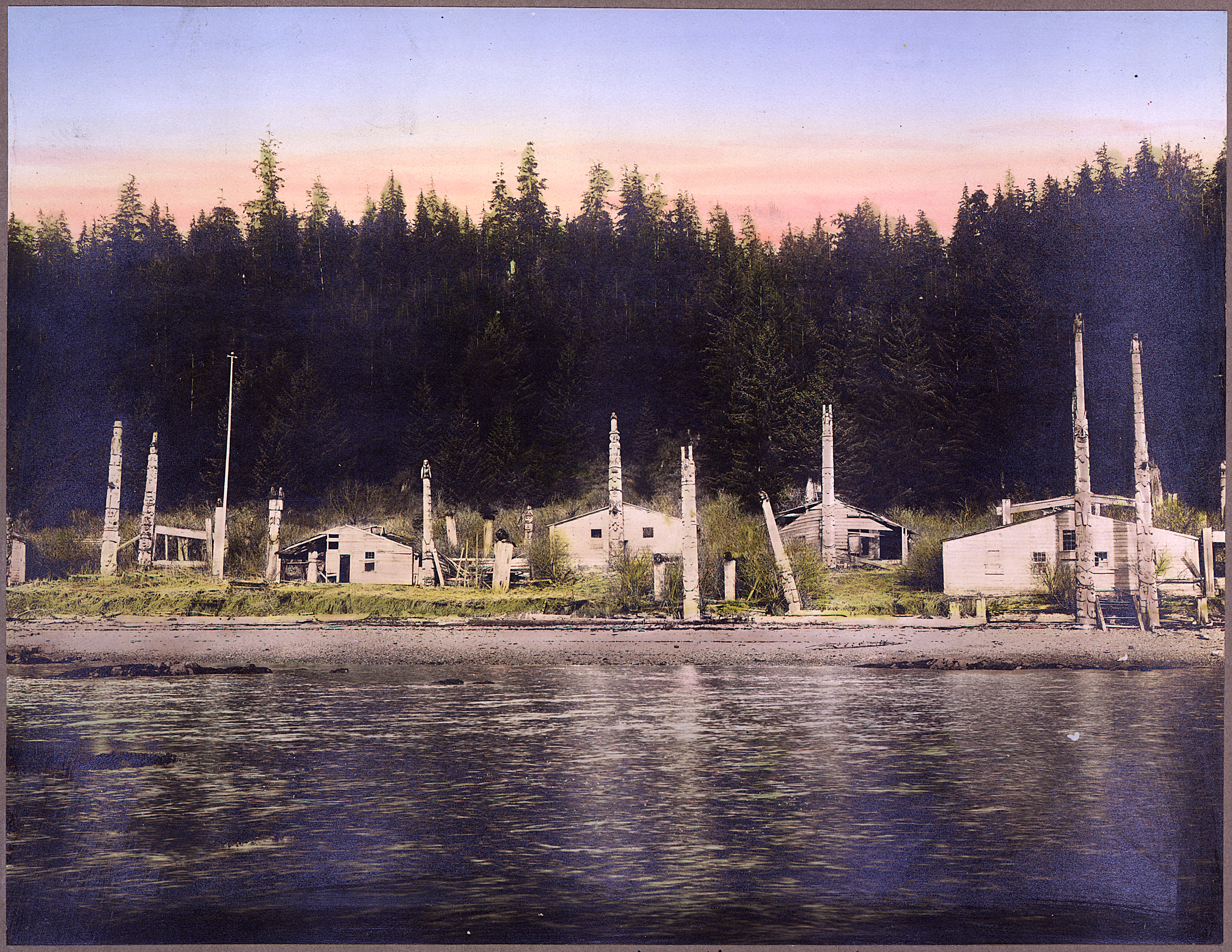 Scope and content: On reverse side of backing: "Henry William Booth, Metlakahtla, Alaska."